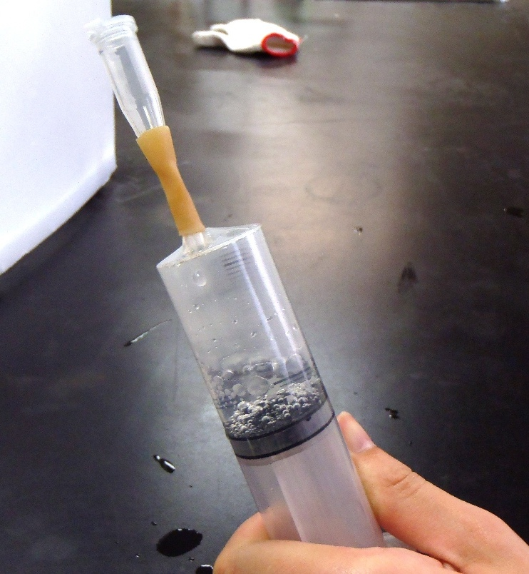 boiling hot water below 100 deg C under low pressure environment